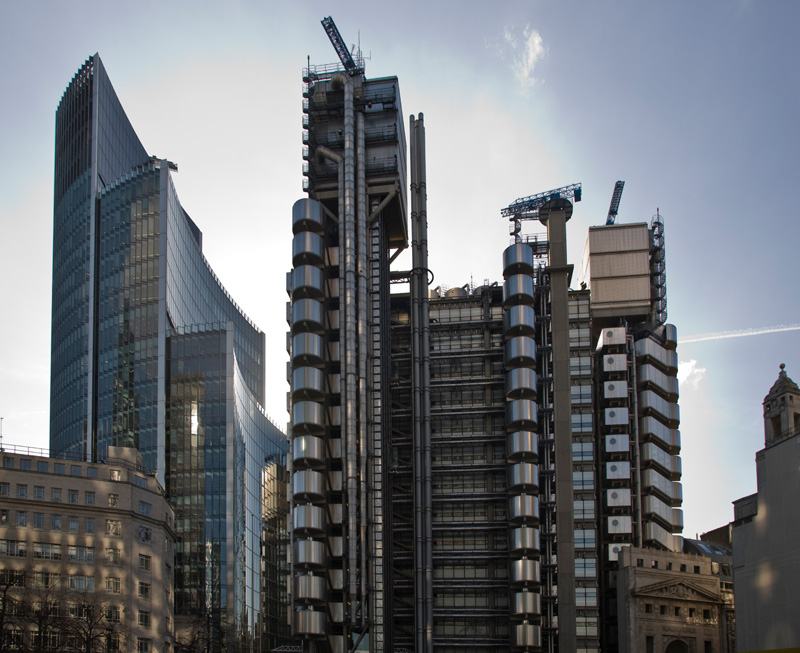 Lloyd's building